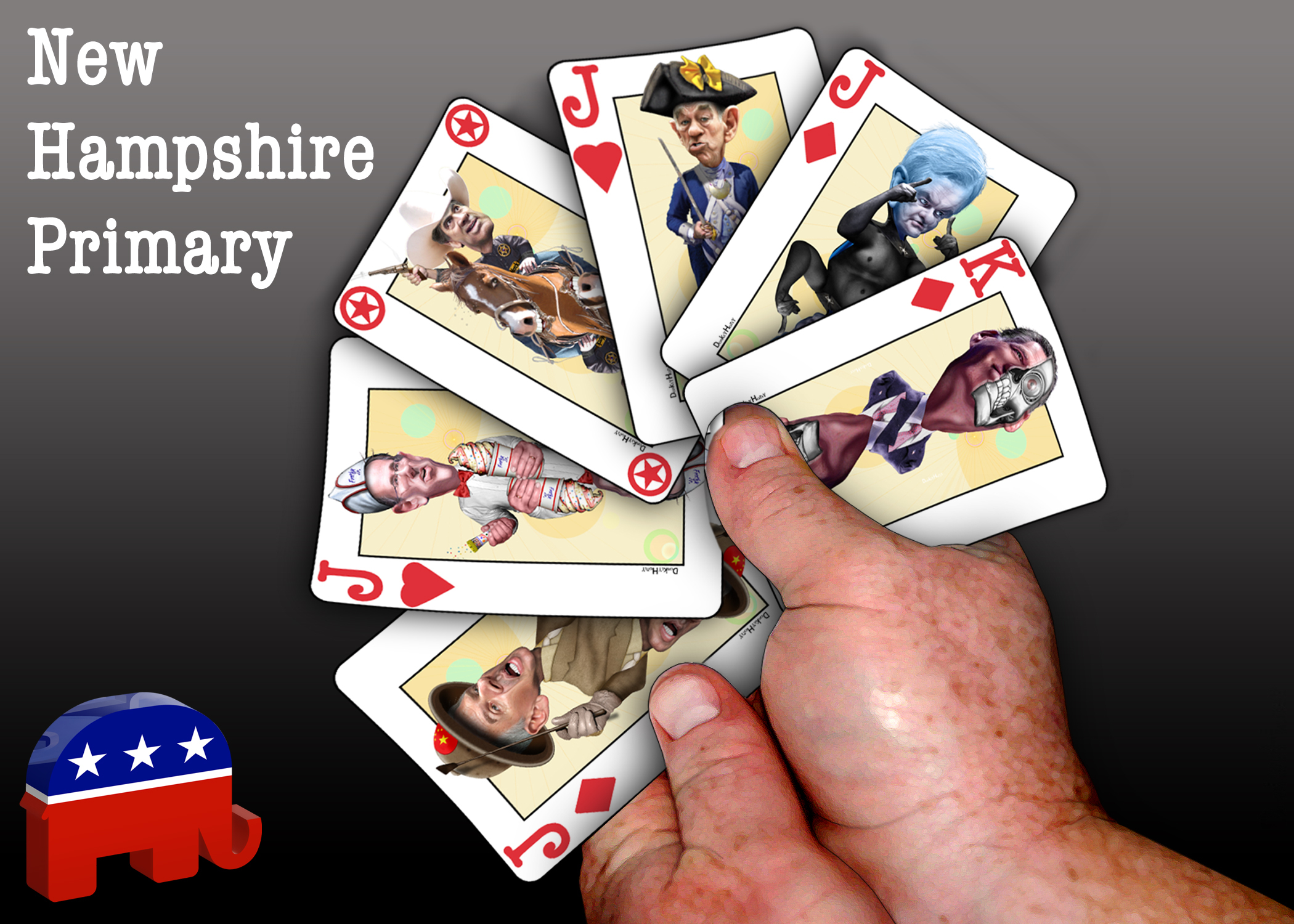 GOP 2012 Playing Card Series - New Hampshire Jon Huntsman, Jack of Hearts Rick Santorum, Jack of Hearts Rick Perry, Joker - Cartoon Ron Paul, Jack of Hearts Newt Gingrich, Jack of Diamonds Mitt Romney, King of Diamonds Source photos: Huntsman - CC from World Economic Forum's flickr photostream. Santorum - CC from Gage Skidmore's flickr photostream. Also a photo from the Library of Congress. Perry - CC from Robert Scoble's Flickr photostream, U.S. Army, and cliff1066. Paul - CC from Gage Skidmore's flickr photostream and _Imaji_'s flickr photostream. Gingrich - CC from Gage Skidmore's flickr photostream. Romney - CC - from Gage Skidmore's Flickr photostream. NOTE: CC = Creative Commons licensed photo